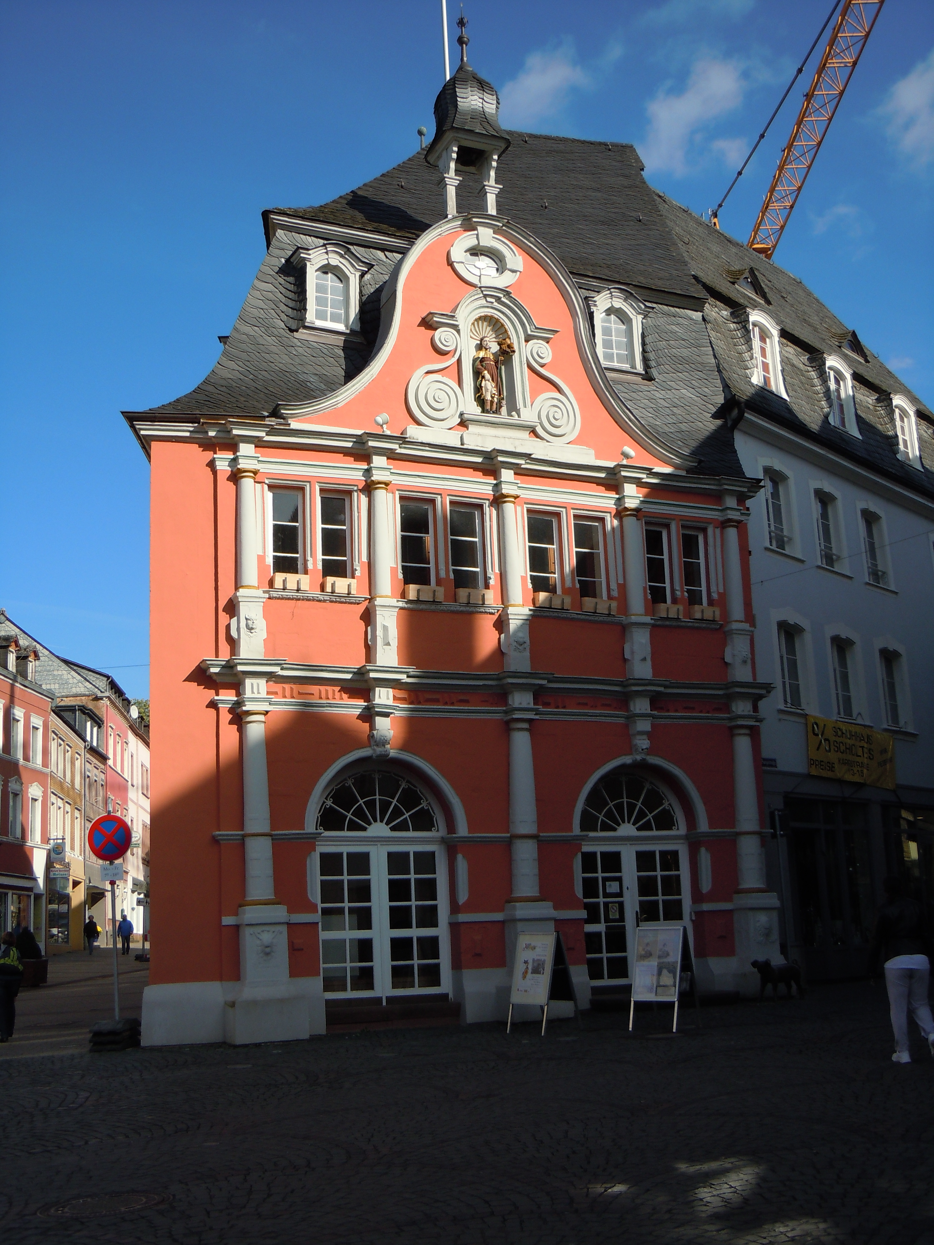 Wittlich's old townhall.